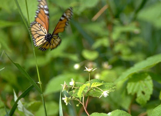 Monarch butterfly lighting upon raspberry flowers